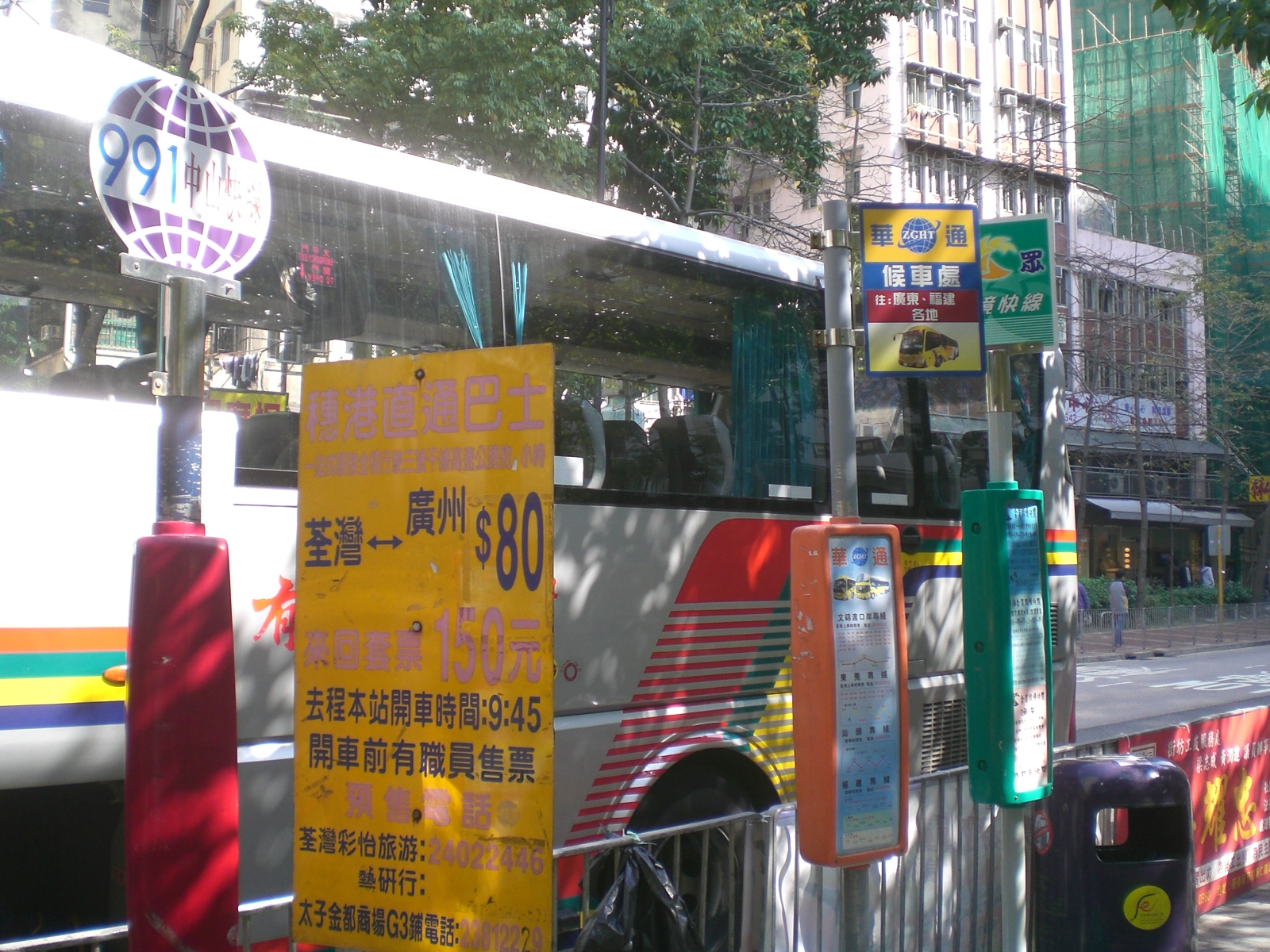 荃灣 荃灣街市街 中港zh:跨境巴士車站